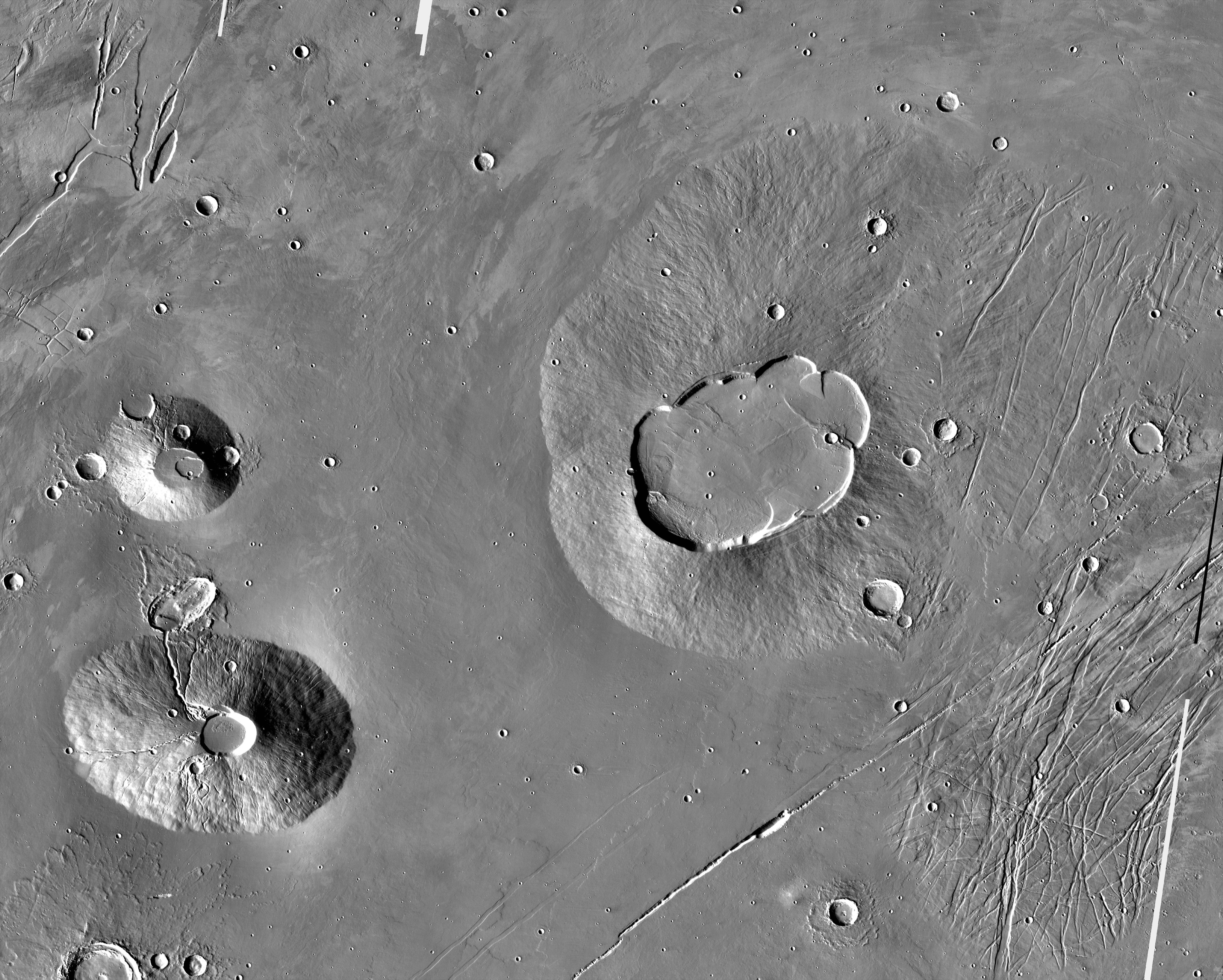 THEMIS daytime infrared image mosaic showing the volcanoes Ceraunius Tholus (lower left), Uranius Tholus (center left) and Uranius Mons (upper right) in the northeast part of the Tharsis region of Mars. Some of the features in this image are annotated in Wikimedia Commons.